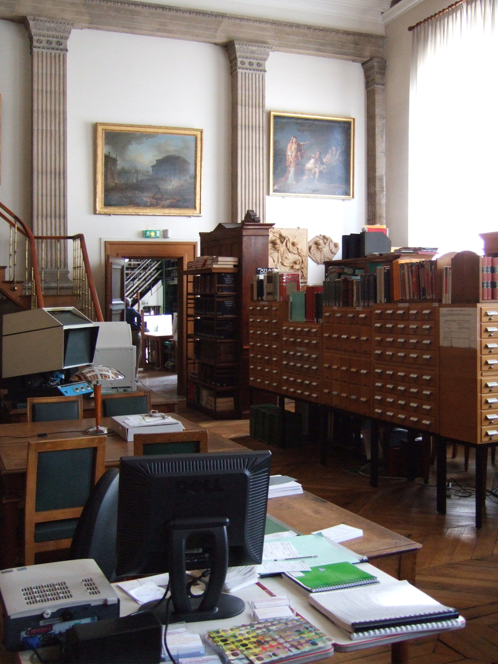 Ecole nationale superieure des Beaux-Arts, Paris, Ensba, Accueil des collections